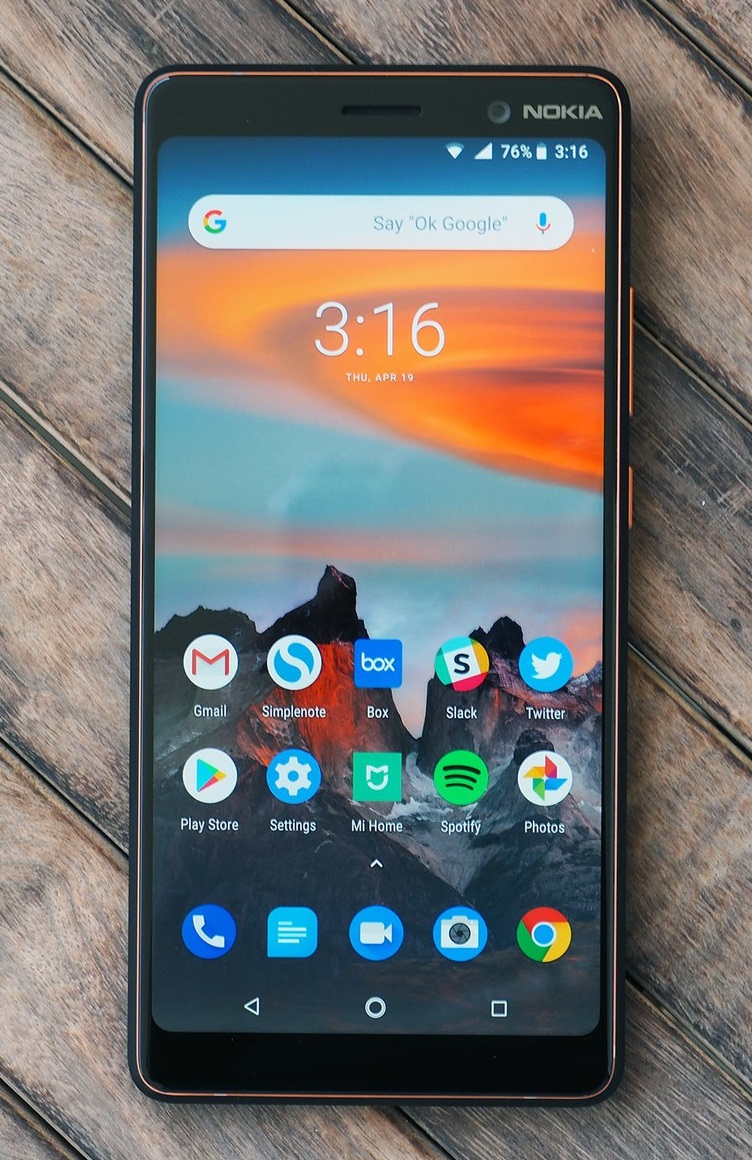 The phone is the first from HMD to feature an 18:9 form factor, and currently, it is the only device in the Finnish manufacturer's portfolio to do so. HMD made a few missteps last year the Nokia 6 had lackluster specs, and the Nokia 8 didn't see much momentum in the high-end segment. But this time around, HMD nailed the basics with the Nokia 7 Plus.